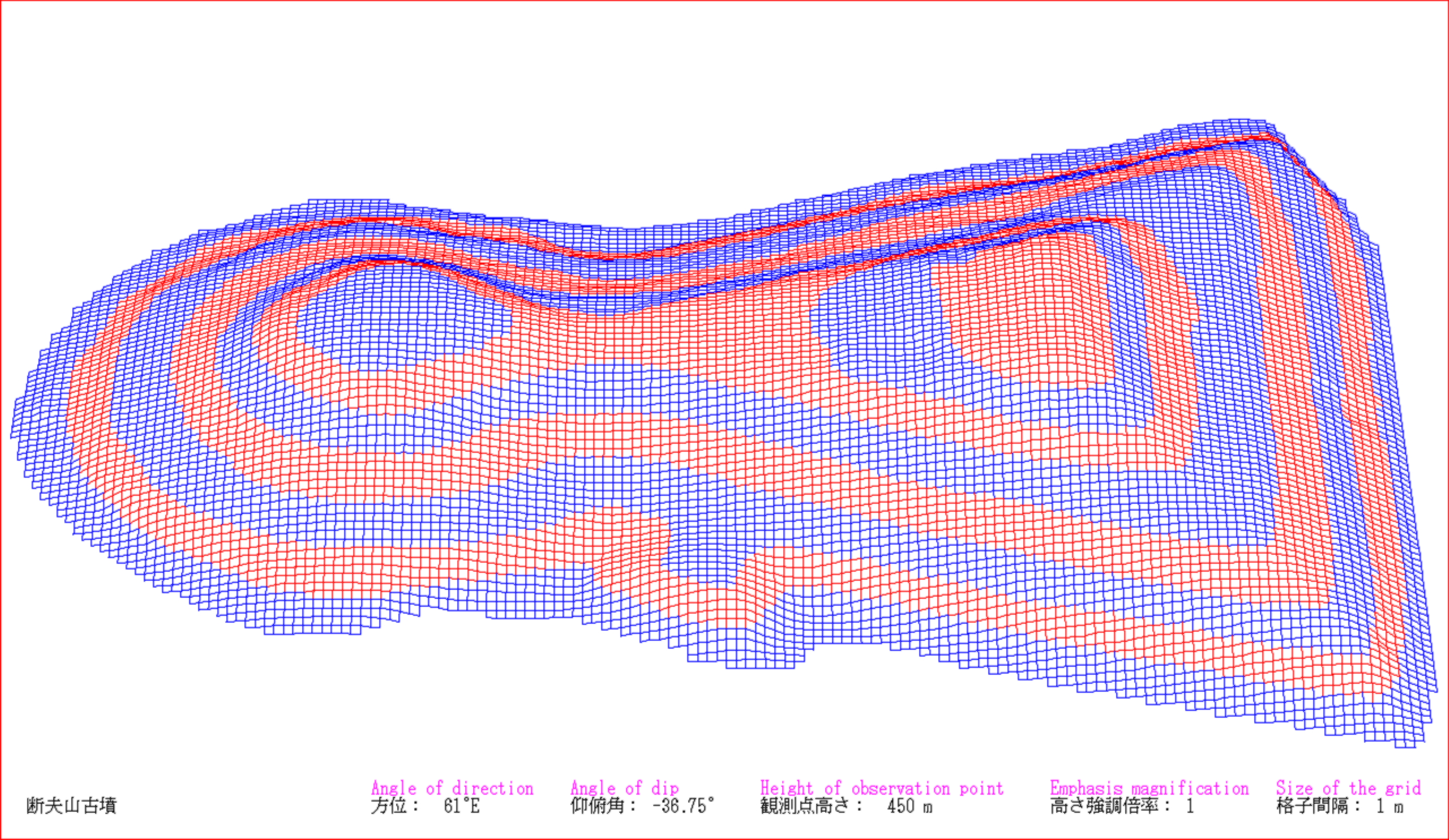 I who am a contributor drew the picture by a software which developed by myself. The survey map which I referred to depends on "第６回東海埋蔵文化財研究会実行委員編『断夫山古墳とその時代』愛知考古学談話会 (1989年）". This is a drawing of present situation (not a drawing of a restored mound). The drawing depends on combination of wire frame and height eight phases classification. Perspective projection.